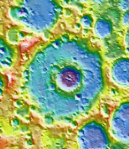 Located on the western limb of the Moon, Einstein and Einstein A craters (16.3oN, 271.3oE ) are only visible to Earth-based observers during certain lunar lighting and orientation conditions. Einstein A is younger than Einstein, as indicated by the fact that it lies squarely in the middle of the floor of Einstein. When viewed in topographic data, these two craters reveal much about the relative age and shape of an impact crater. To understand further, let's first take a look at Einstein. Einstein is a fairly large crater that spans 198 km across. A crater's size alone however cannot reveal much about age. Einstein's relative age can be determined by examining the frequency and distribution of impact craters overprinted on its rim and floor. Younger craters have had fewer impacts, which enables them to retain their original morphology. Einstein A reveals most of its original structure, including a raised rim and ejecta blanket, and is therefore a relatively young crater as compared to Einstein, whose original structure has been somewhat degraded over time by smaller impacts. The Einstein craters were named after famed physicist, philosopher, and scientist Albert Einstein (1879-1955).